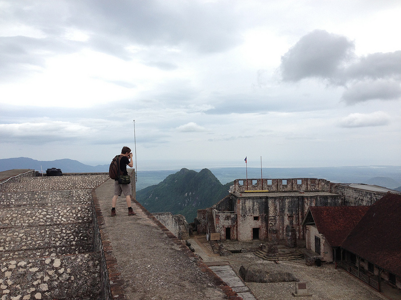 A view from the top of the Citadelle Laferriere outside Milot, Haiti